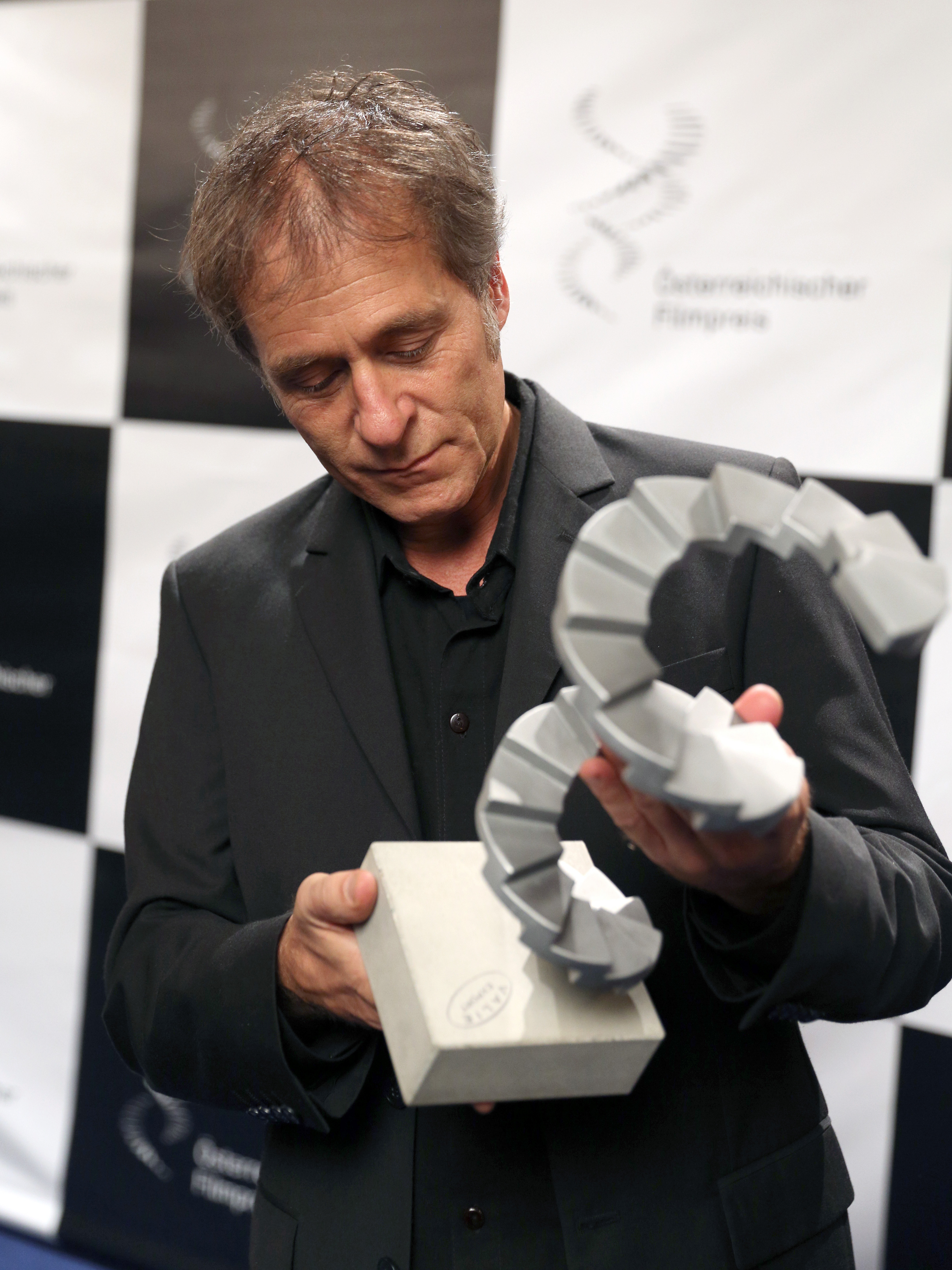 Hubert Sauper (best documentary for We Come as Friends) at the Austrian Film Awards 2015 at Rathaus, Vienna,Austria.